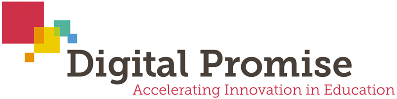 Logo Masthead of the of the Congressionally authorized nonprofit organization "Digital Promise"